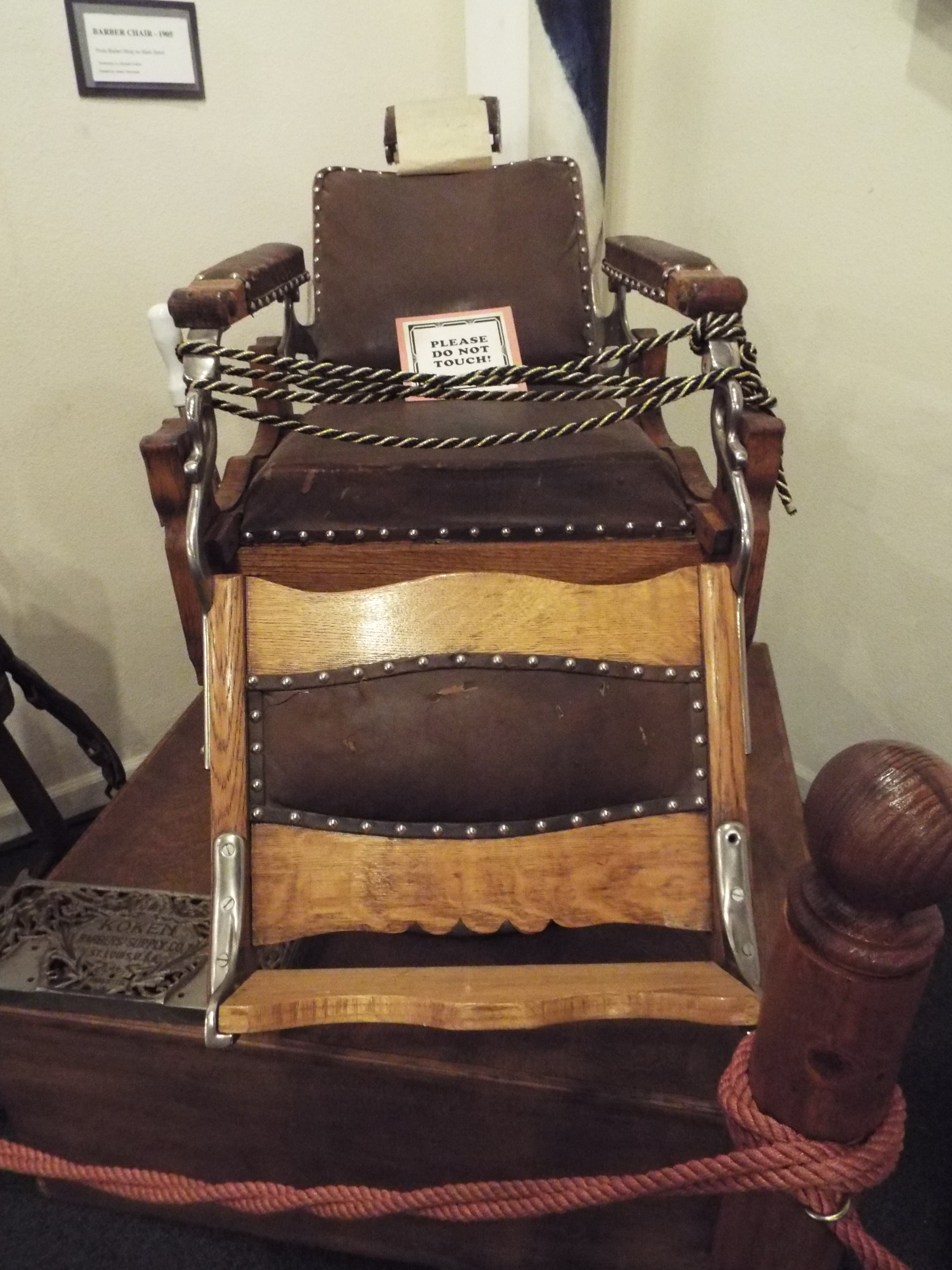 1905 Barber Chair once used in the Barber Shop on Main Street in Scottsdale, AZ